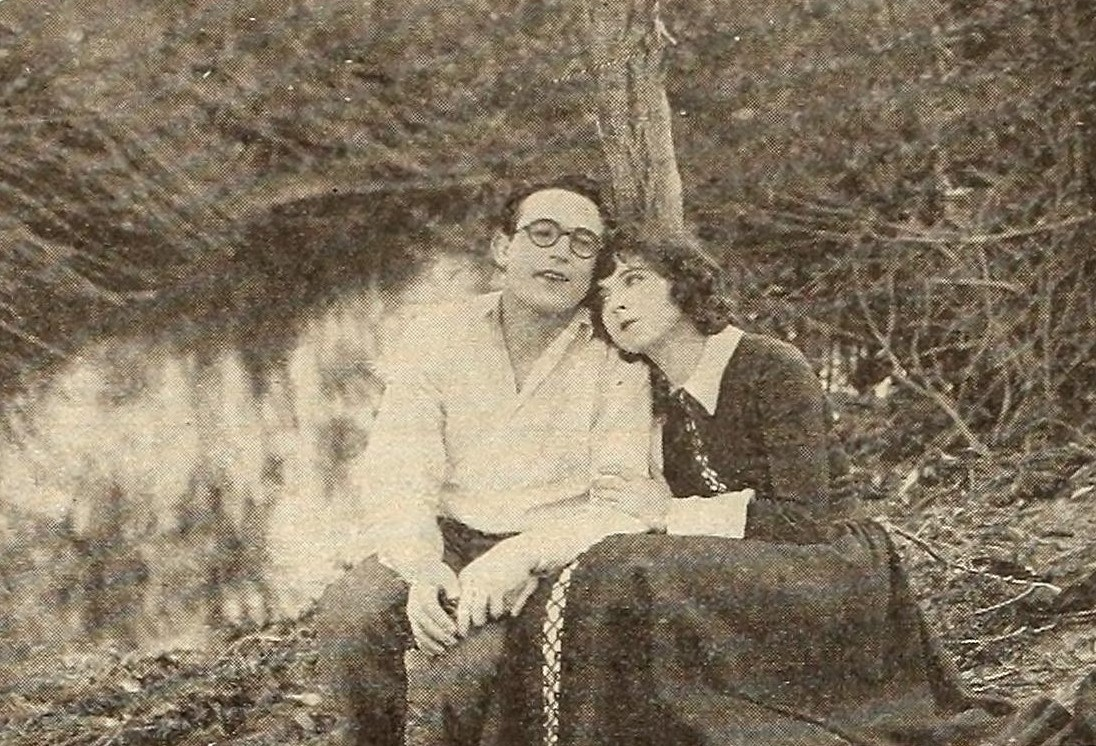 Still from the American comedy film Girl Shy (1924) featuring Harold Lloyd.